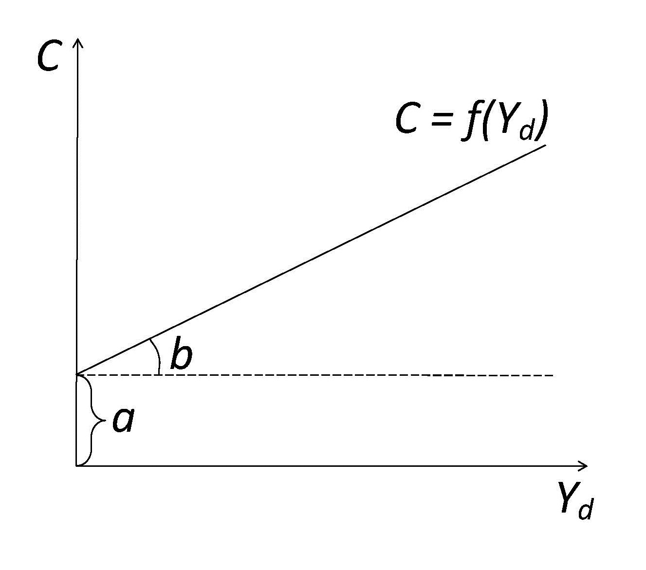 Consumption function graph